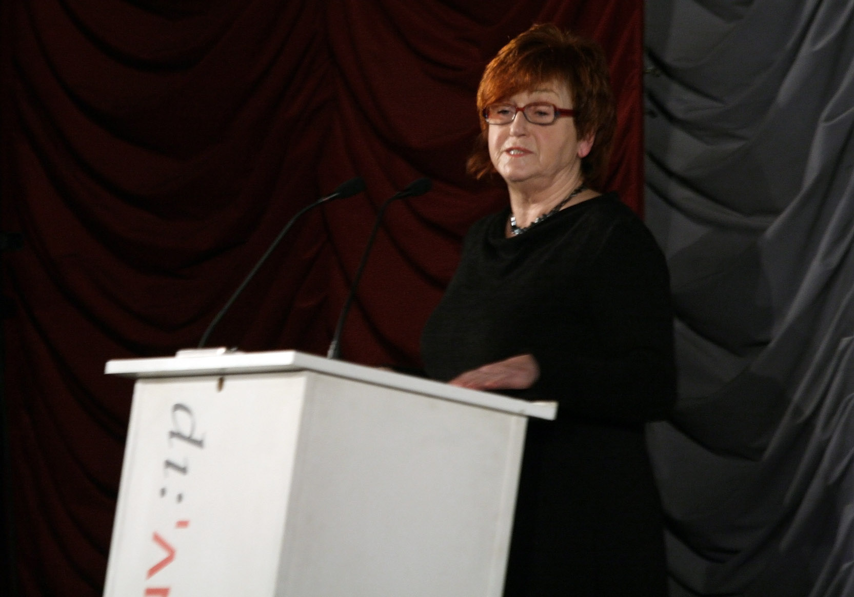 VALIE EXPORT at the ceremony of the Oskar Kokoschka Award 2012 for Yoko Ono at the Gartenbaukino in Vienna.